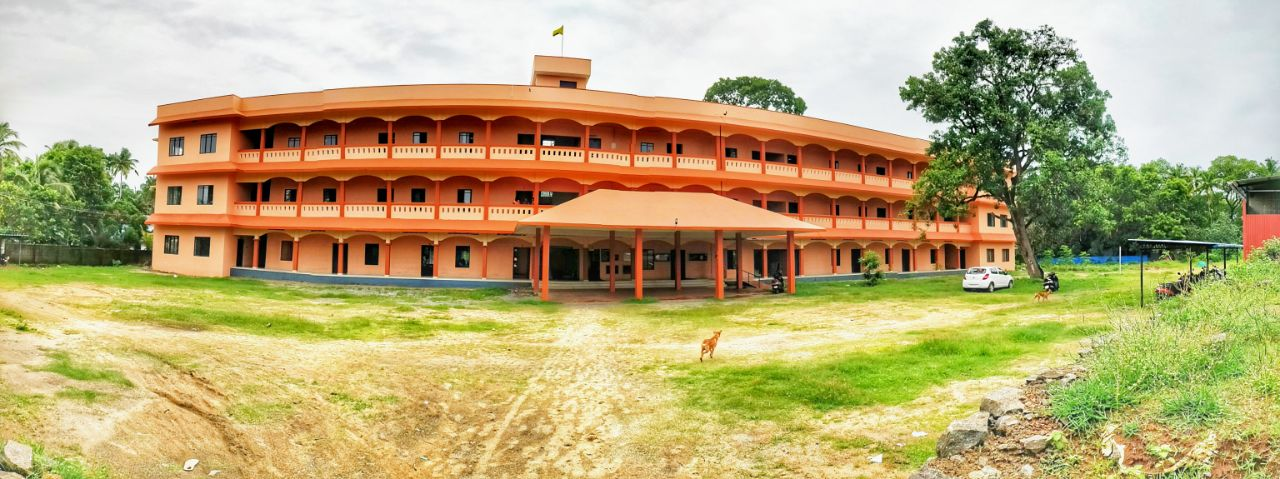 The main building of the SNGC, Nattika campus.